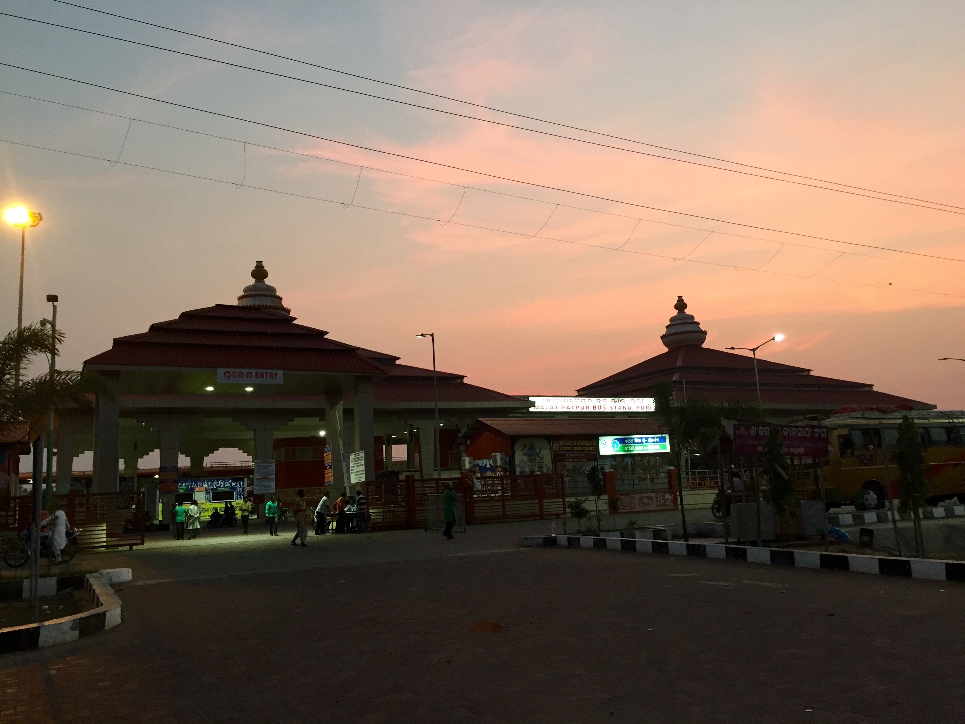 Malati Patapur Bus stand at Puri built during Nabakalebara 2016